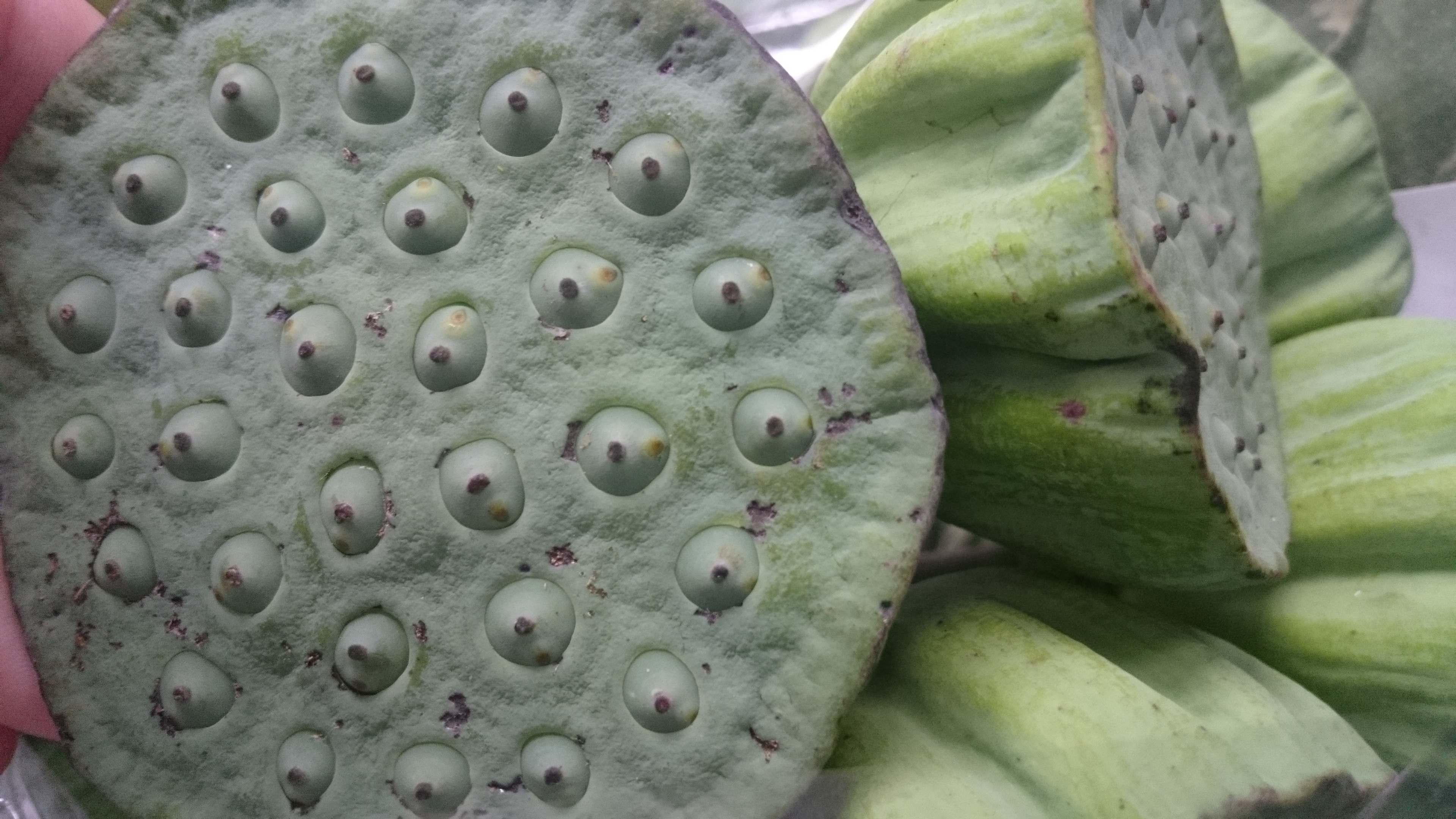 Lotus pod